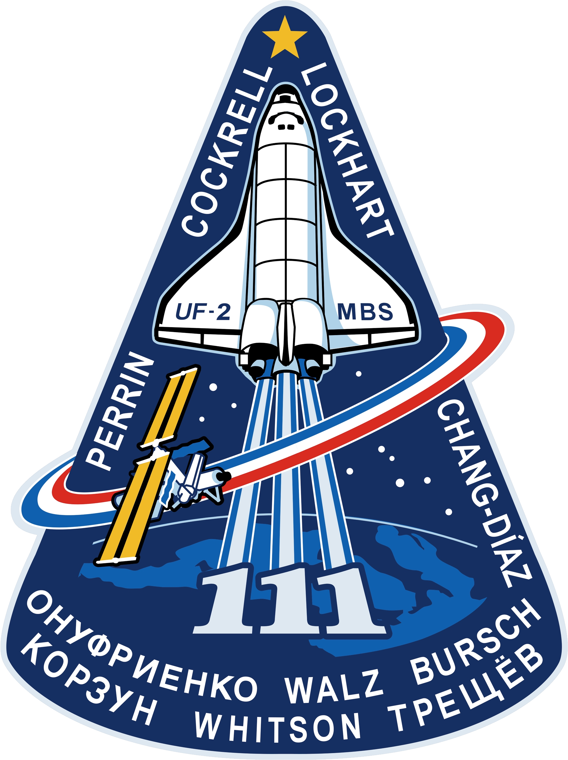 STS111-S-001 --- The STS-111 patch symbolizes the hardware, people, and partner nations that contribute to the flight. The Space Shuttle rises on the plume of the Astronaut Office symbol, carrying the Canadian Mobile Base System (MBS) for installation while docked to the International Space Station (ISS). The mission is named UF-2 for ISS Utilization Flight number two. The ISS orbit completes the Astronaut Office symbol and is colored red, white, and blue to represent the flags of the United States, Russia, France, and Costa Rica. The Earth background shows Italy, which contributes the Multi Purpose Logistics Module (MPLM) used on this flight to re-supply ISS. The ten stars in the sky represent the ten astronauts and cosmonauts on orbit during the flight, and the star at the top of the patch represents the Johnson Space Center, in the state of Texas, from which the flight is managed. The names of the STS-111 crew border the upper part of the patch, and the Expedition Five (going up) and Expedition Four (coming down) crews’ names form the bottom of the patch. The NASA insignia design for Shuttle flights is reserved for use by the astronauts and for other official use as the NASA Administrator may authorize. Public availability has been approved only in the forms of illustrations by the various news media. When and if there is any change in this policy, which is not anticipated, the change will be publicly announced.